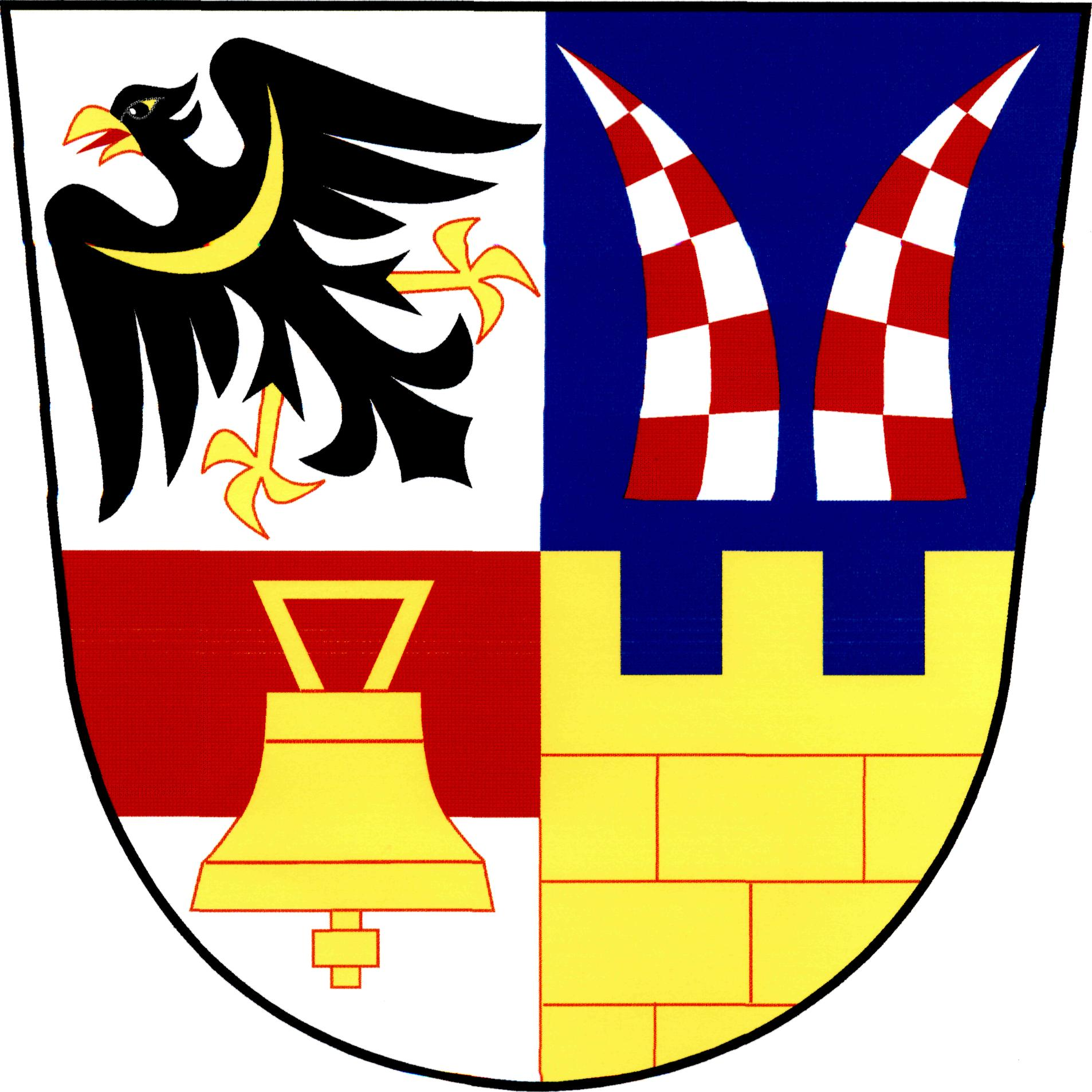 Coat of amrs of Bašť , District Praha-východ, Czech Republic